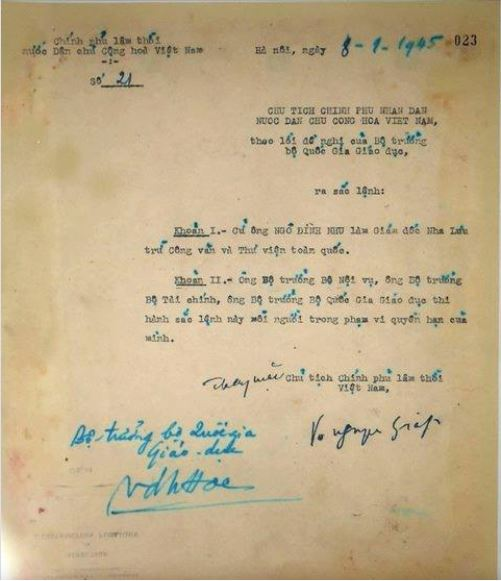 Command 21